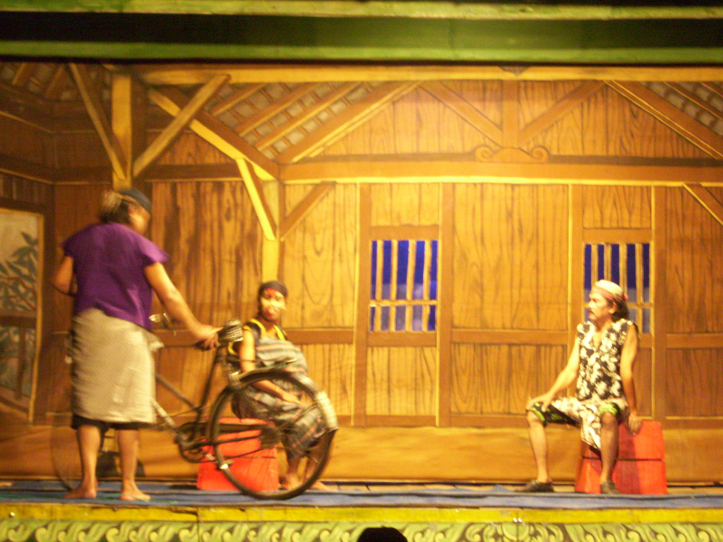 Kethoprak (Javanese popular drama depicting legends, historical or pseudo-historical events). Performance by Kethoprak Tobong Kelana Bhakti Budaya, Bantul, Yogyakarta, Indonesia.